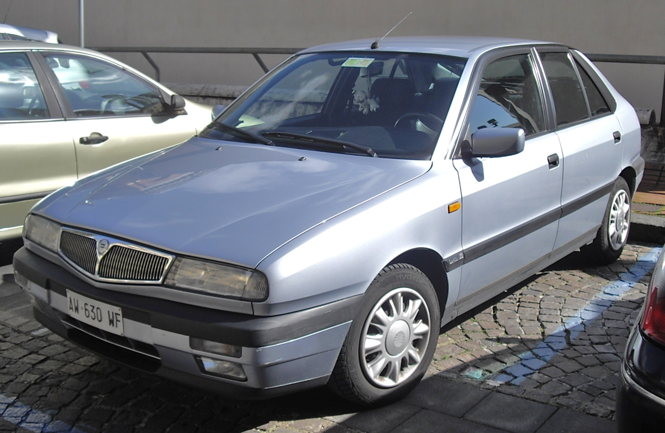 Lancia Delta II